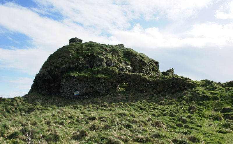 Dunyvaig Castle, Islay, Argyll and Bute, Scotland. Seen from north within outer courtyard.